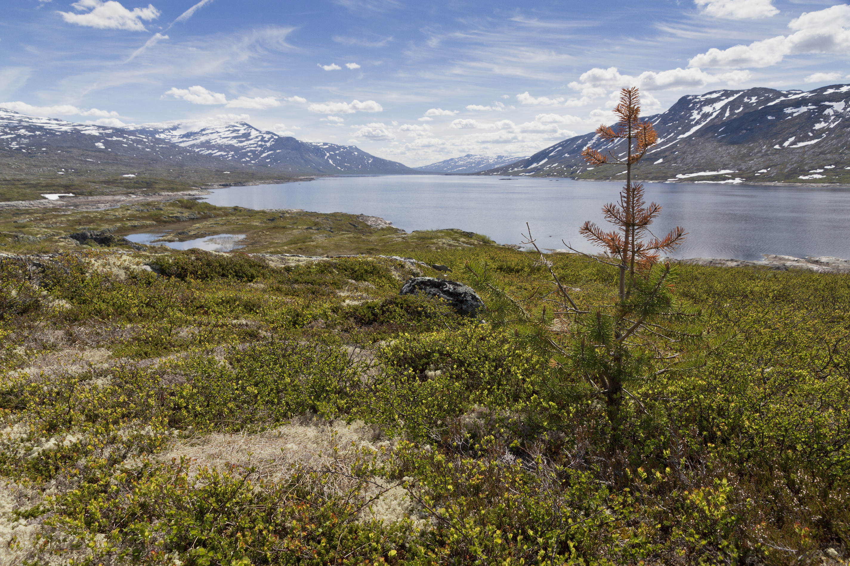 Aursjøen lake as seen from the side of Nesset municipality, Møre og Romsdal, Norway in 2013 June. Not far from Dovrefjell–Sunndalsfjella National Park to the east.